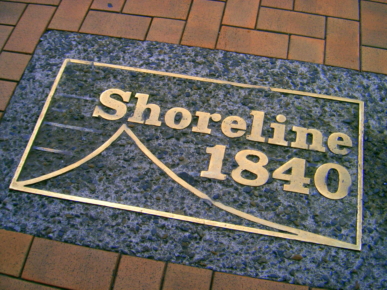 A plaque reading "Shoreline 1840" in Wellington City